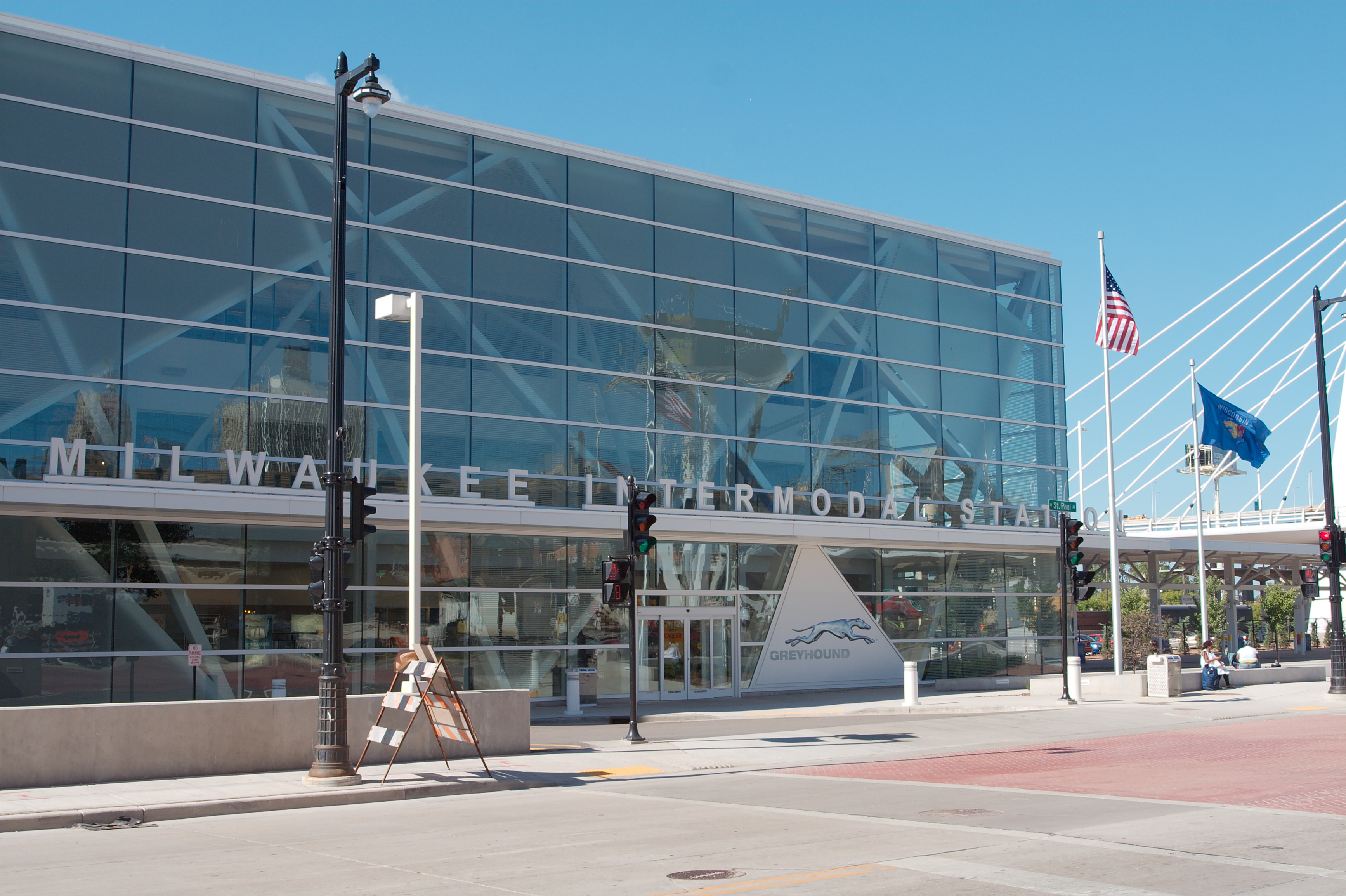 Milwaukee, Wisconsin Milwaukee Intermodal Station